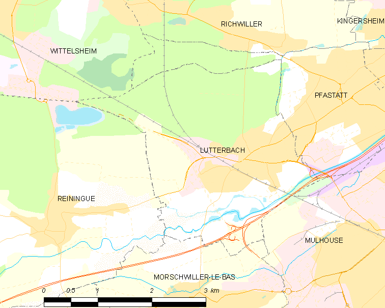 Map of French municipality